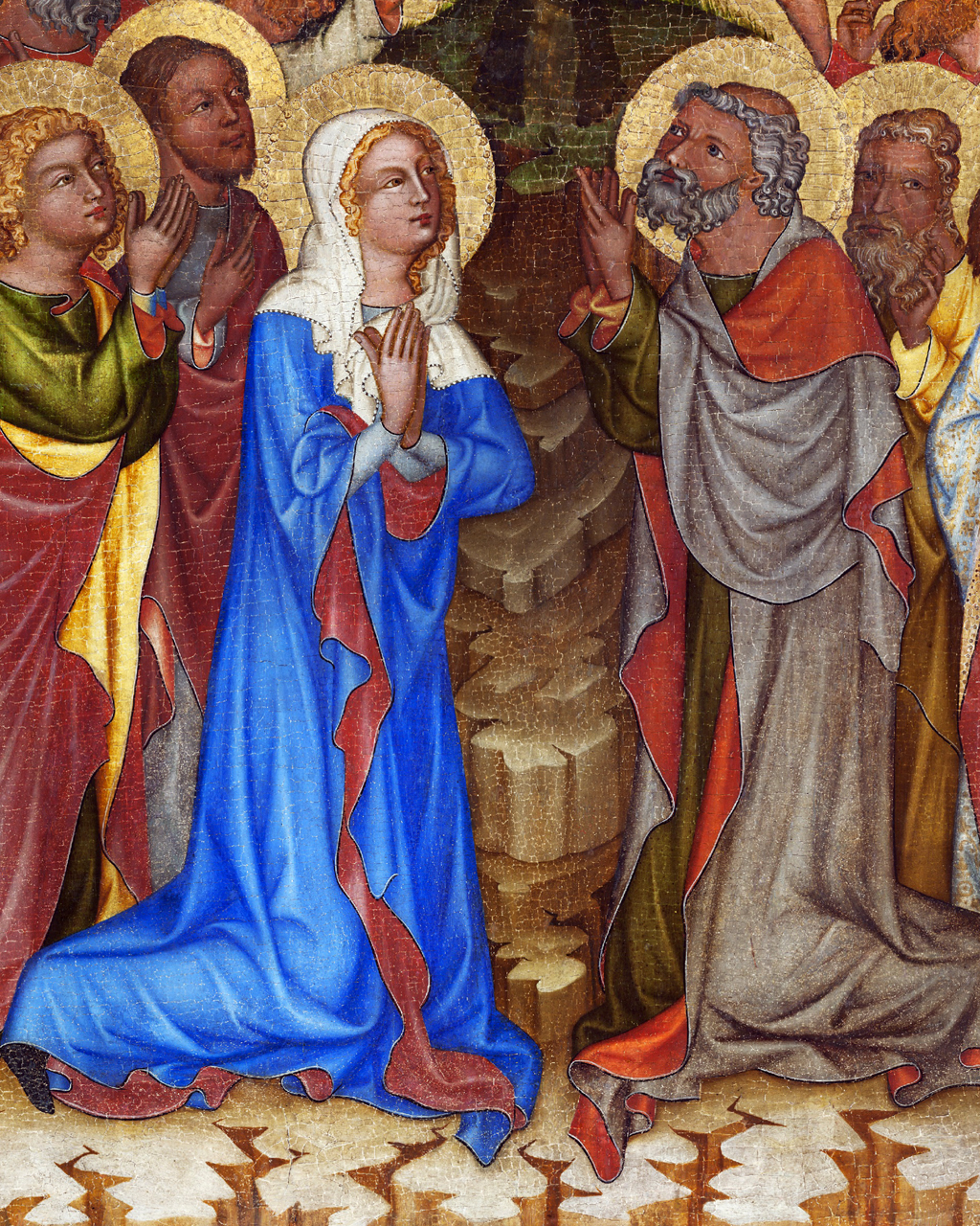 Hohenfurth Altarpiece - Ascension of Jesus (detail of Mary), National Gallery in Prague